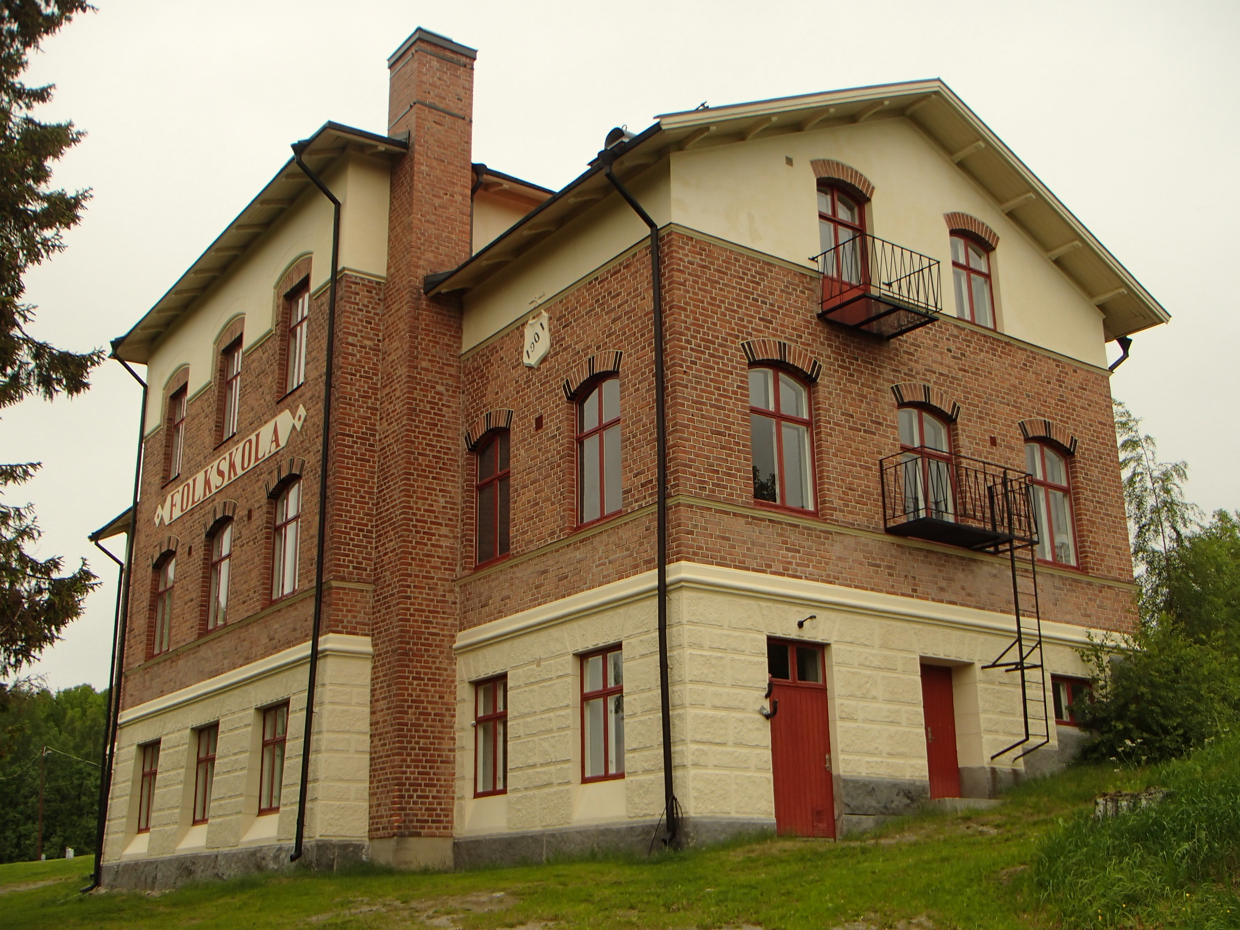 The main school house of "Arnäs skola" at Prästbordet 105 in Arnäsvall, Örnsköldsvik Municipality